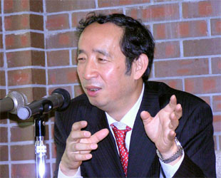 koen